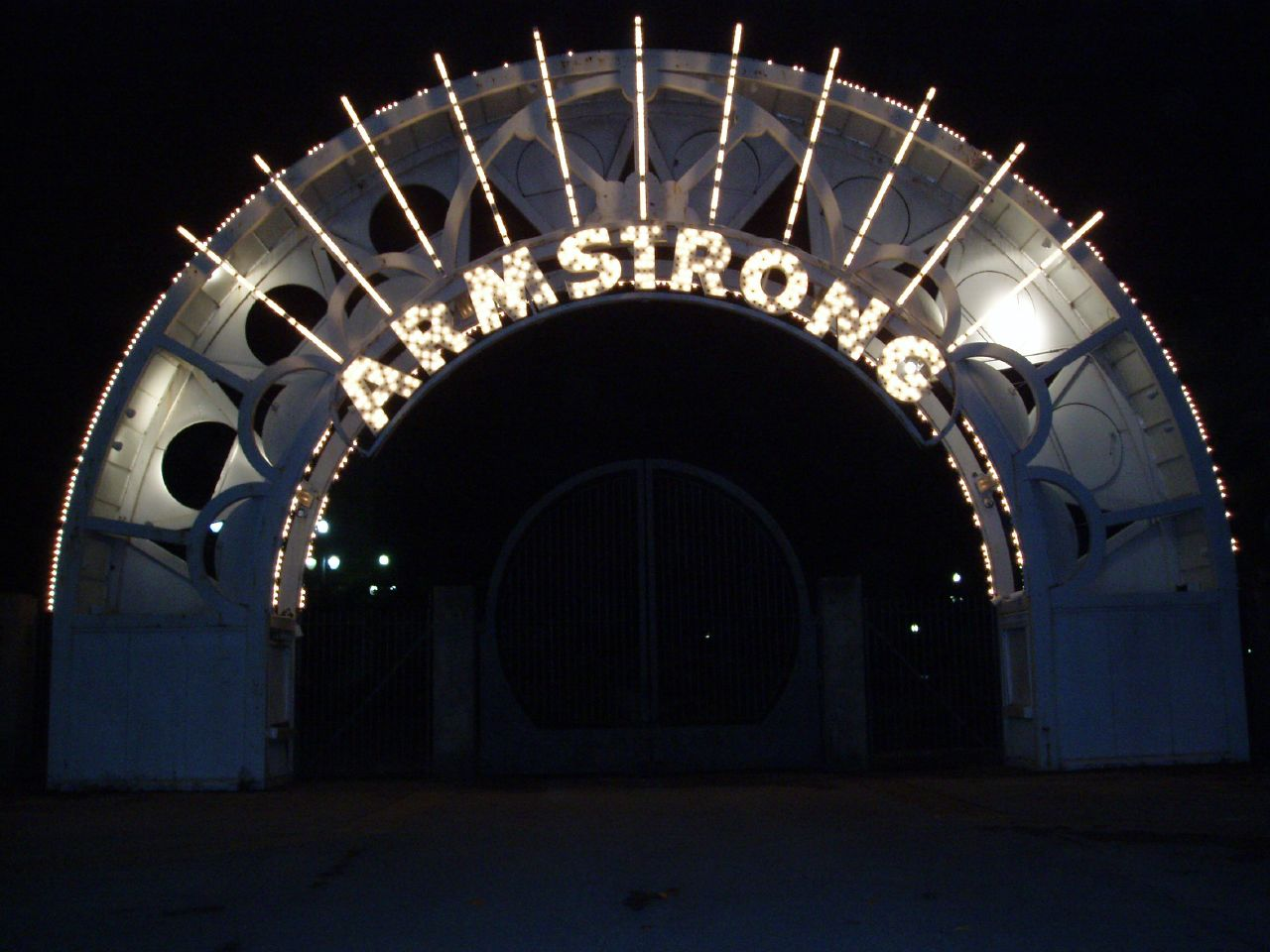 Arch gate of Armstrong Park, New Orleans, lit at night, 2004